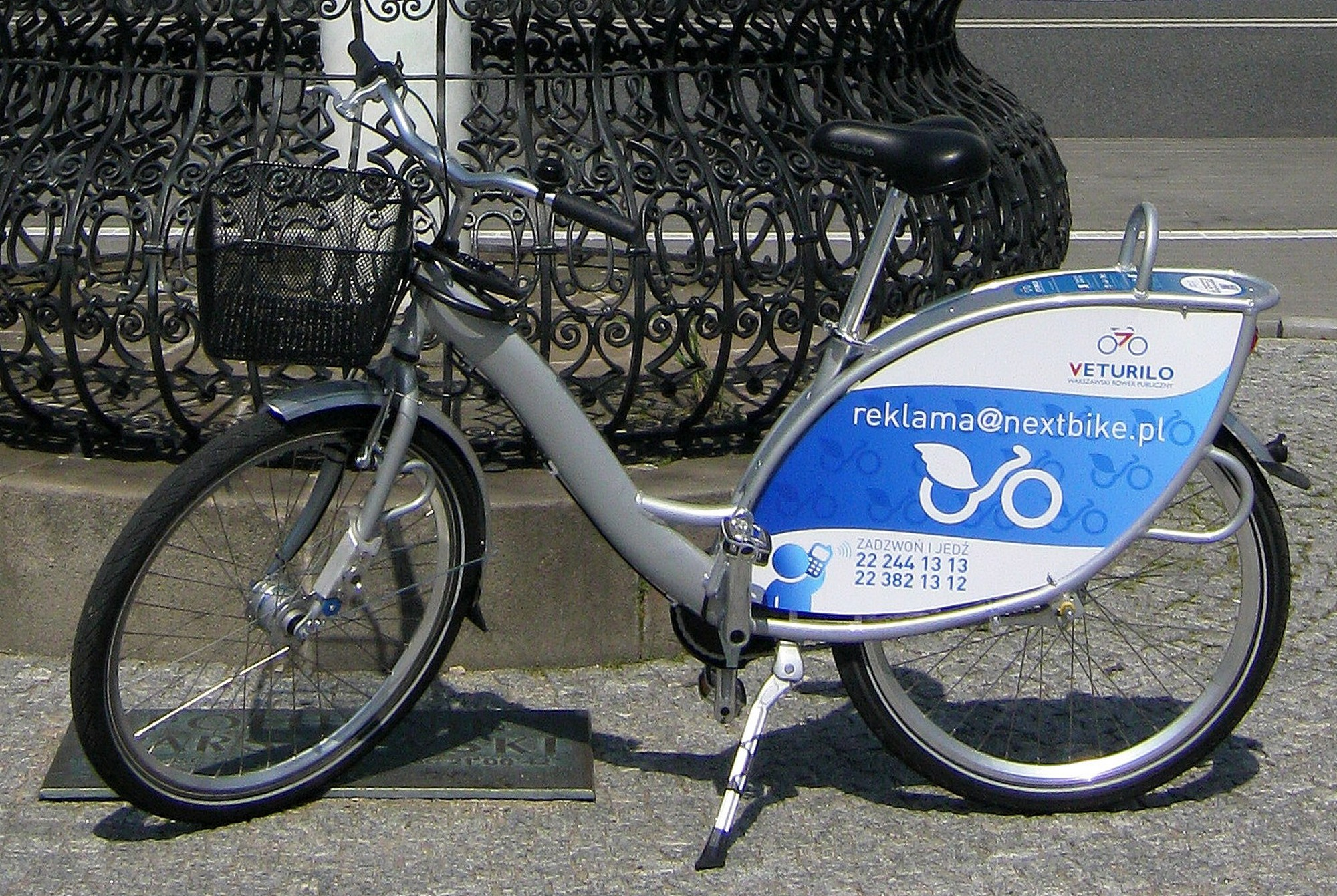 Veturilo bicycle